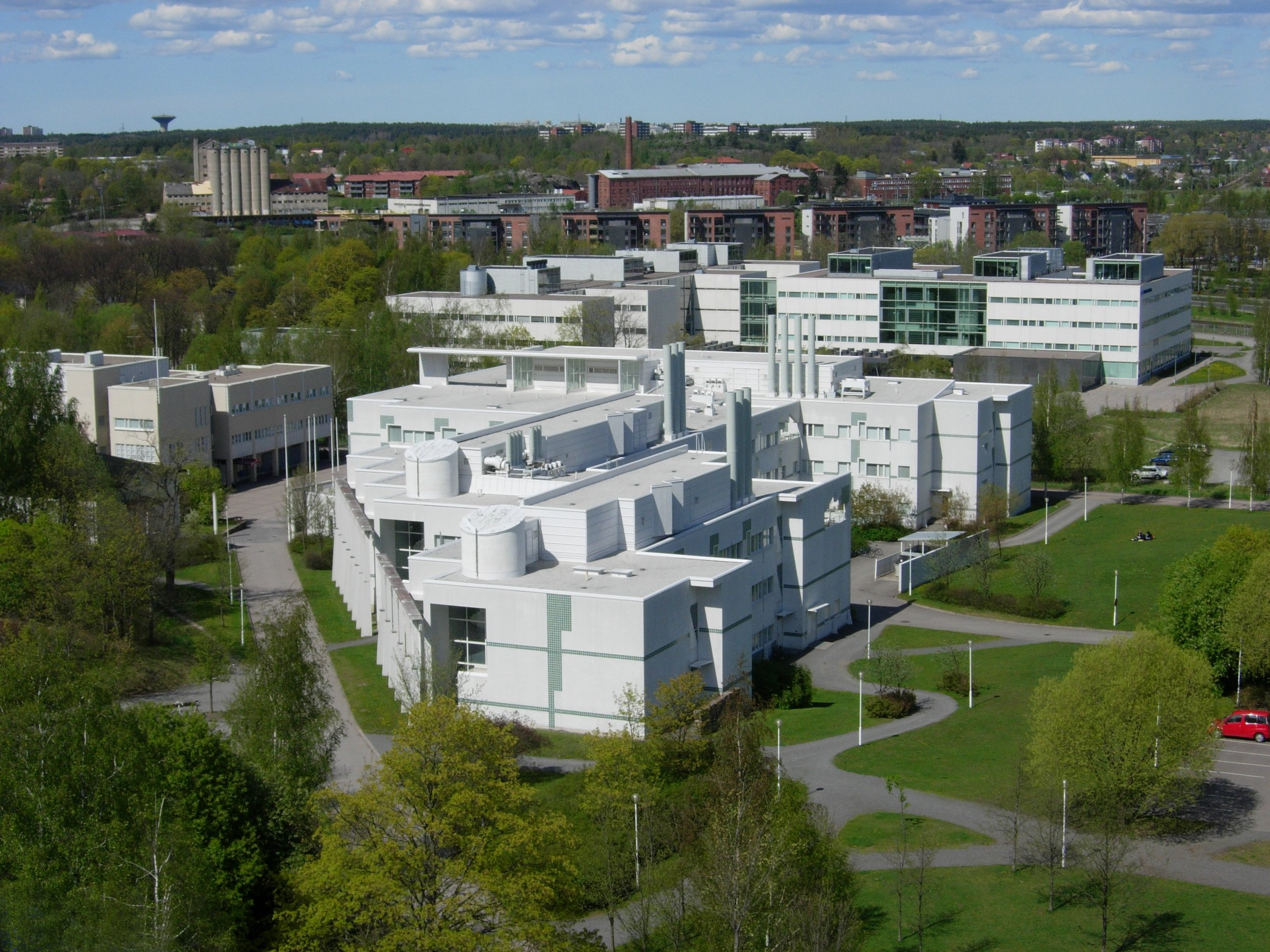 Buildings of the University of Turku: Arcanum (in front), Calonia (on the left), Educarium (in behind, left), and Publicum (in behind, right)